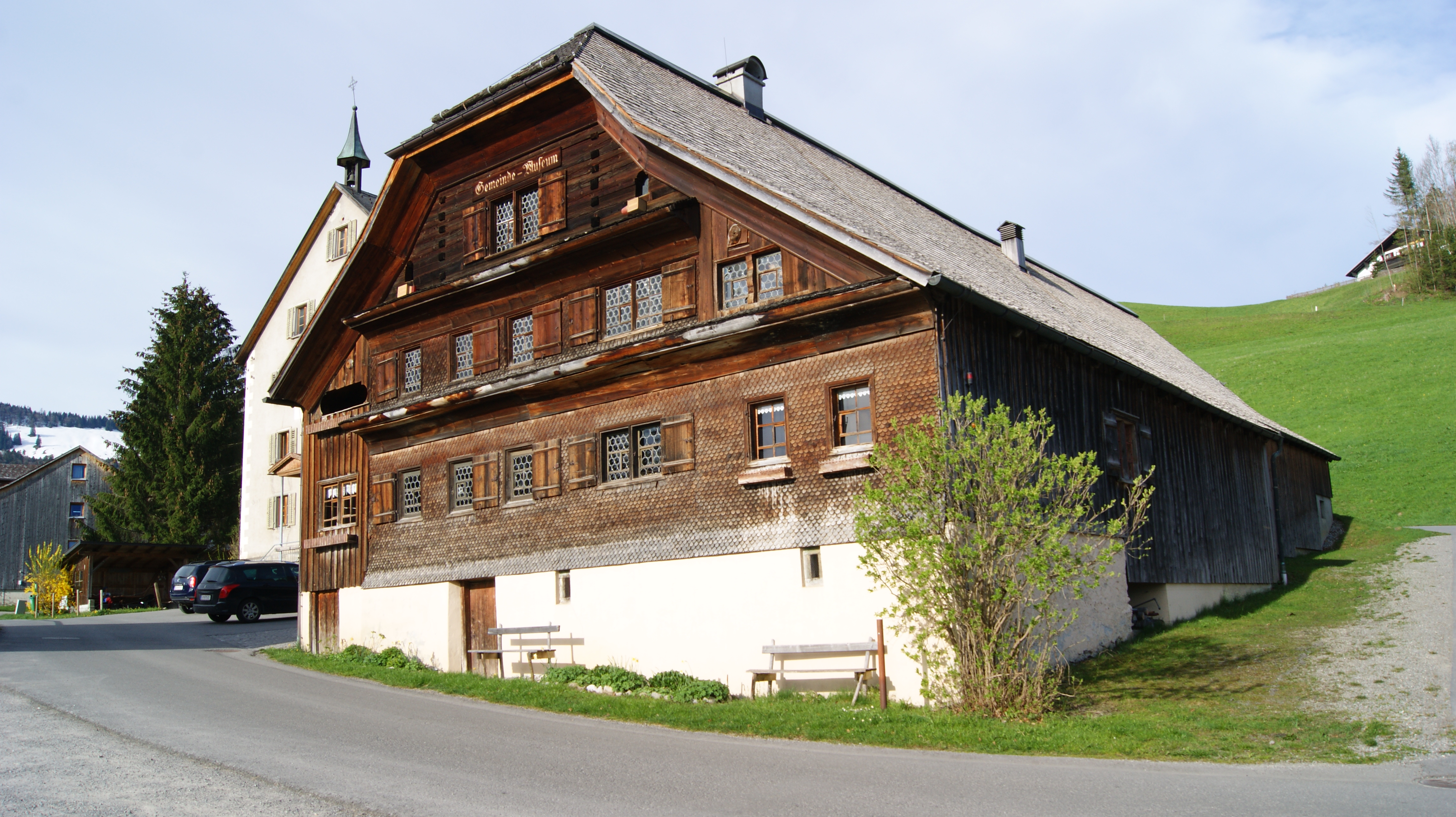 Brand 34: Angelika Kaufmann Museum in Schwarzenberg, Vorarlberg, Austria.